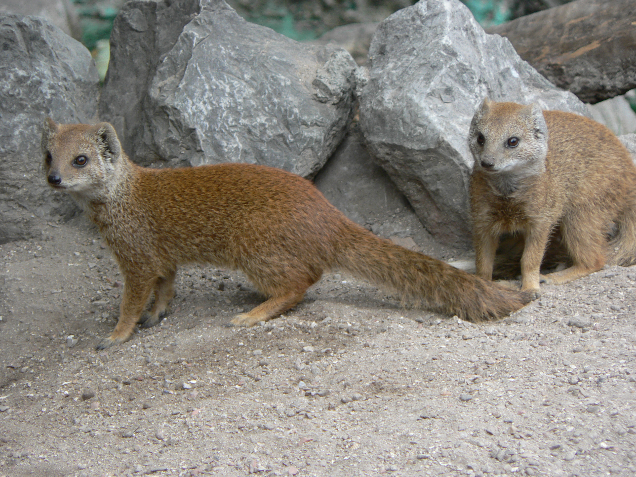 Yellow Mongooses in zoo of Lille. Picture taken with Panasonic Lumix DMC-FZ5